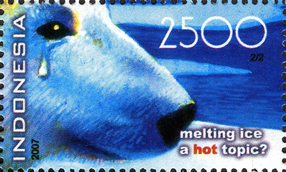 Stamps of Indonesia